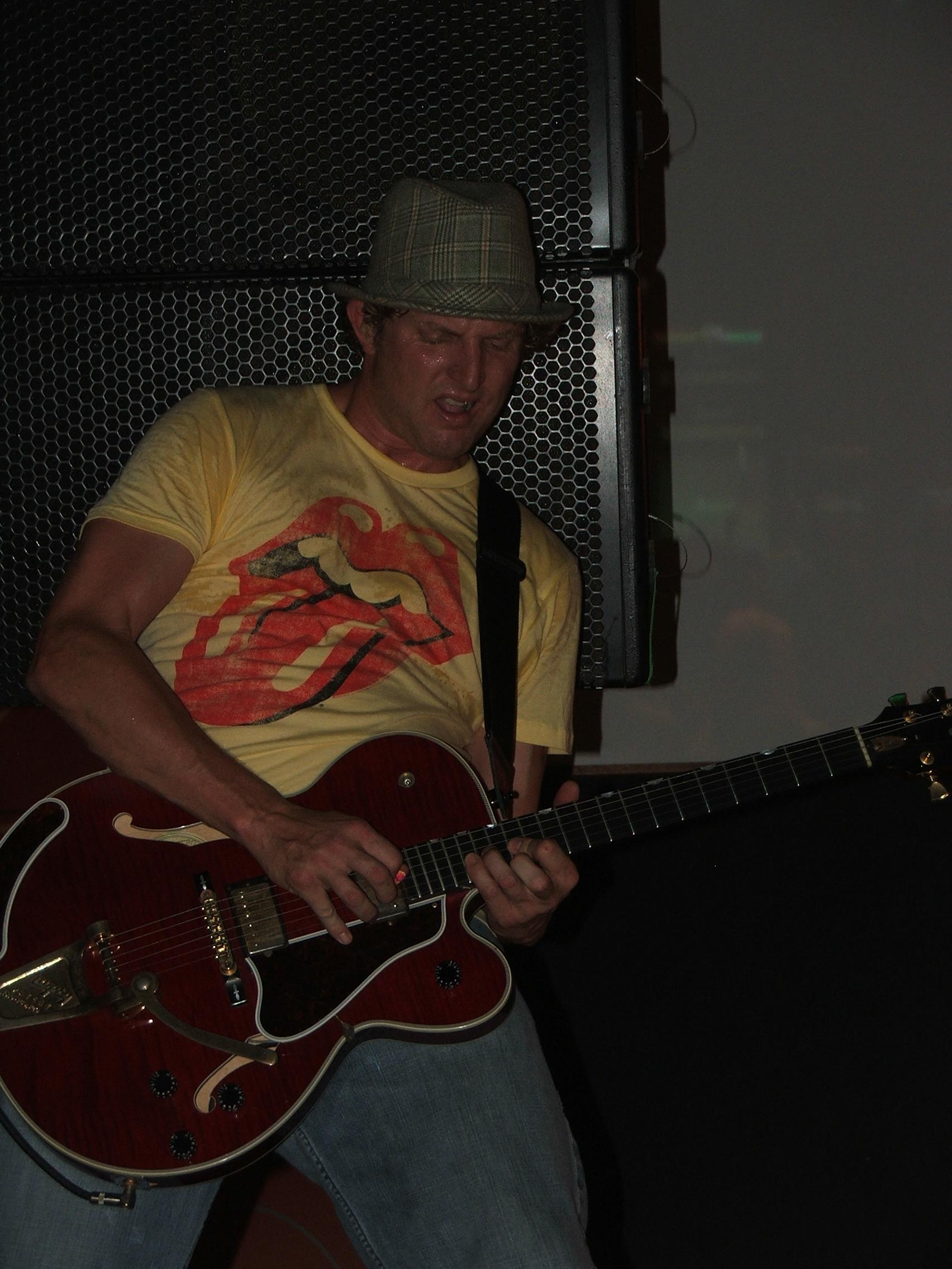 Mark Bryan playing with Cowboy Mouth